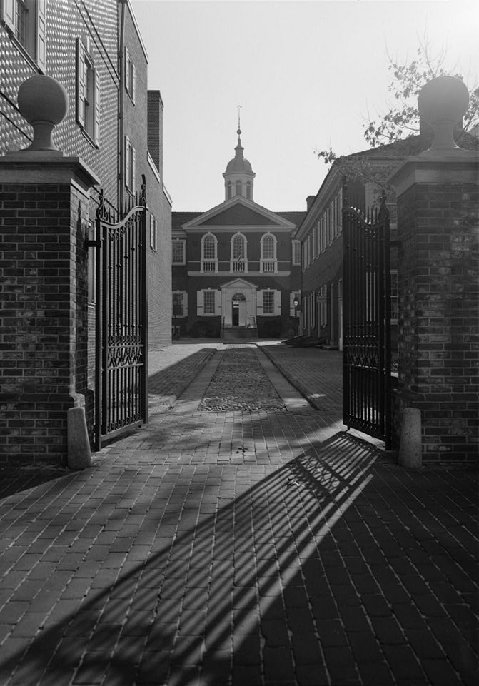 General view of Carpenters' Hall, Philadelphia, Pennsylvania.